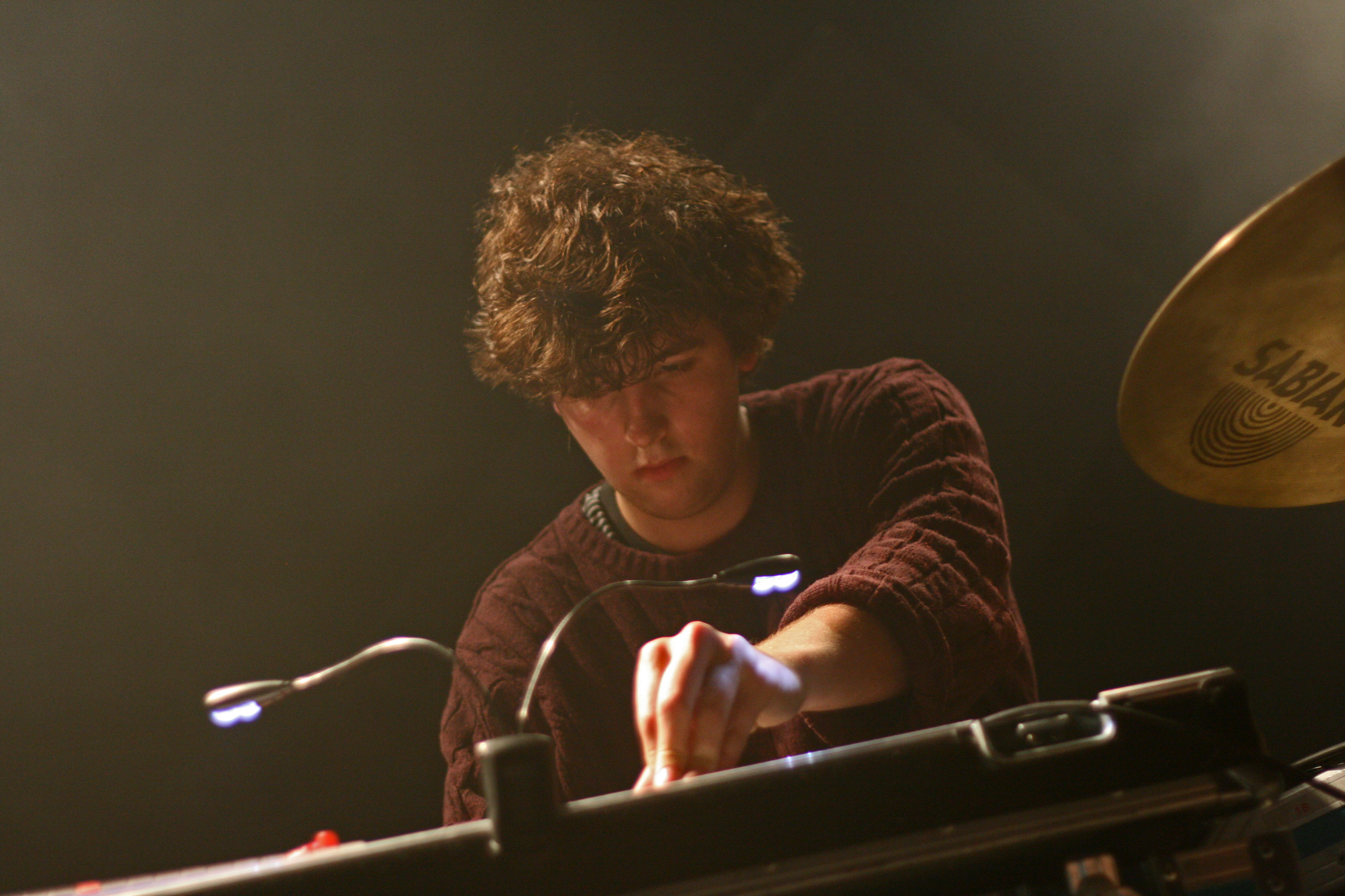 The xx, performing live at The Komedia, Brighton, East Sussex in March 2010.